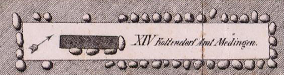 Megalithic tomb near Brockhimbergen, Sprockhoff-No. 788